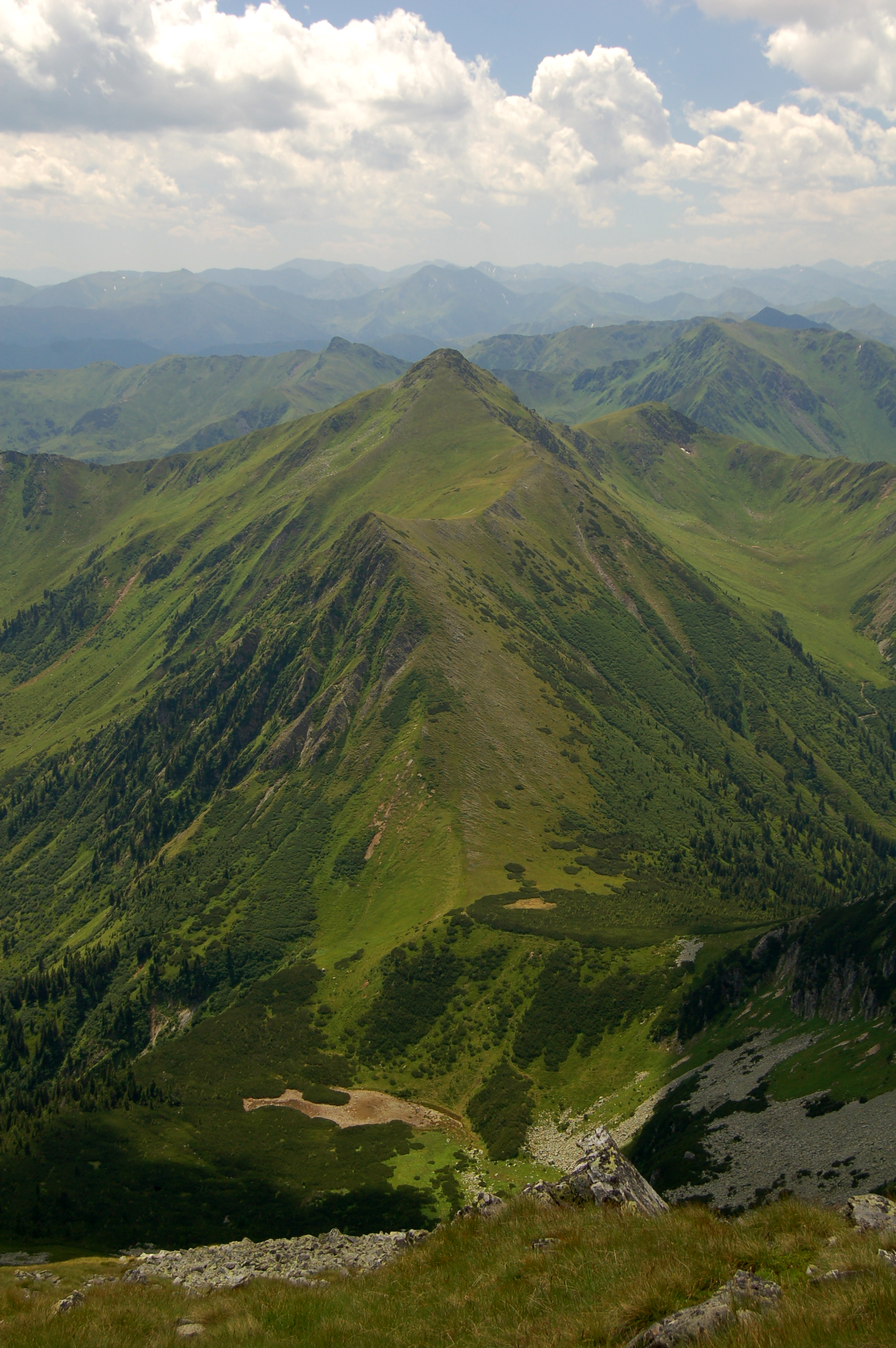 Perwurzgupf (2082m) and Zinkenkogel (2233m) as seen from N, Kleiner Bösenstein.